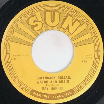 A record of Ray Harris' Greenback Dollar, Watch and Chain